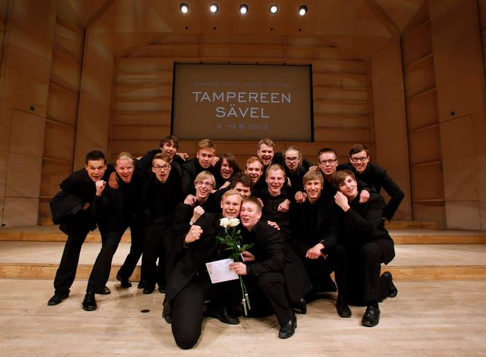 Euga Male Voice Choir at Tampere Vocal Music Festival in 2013